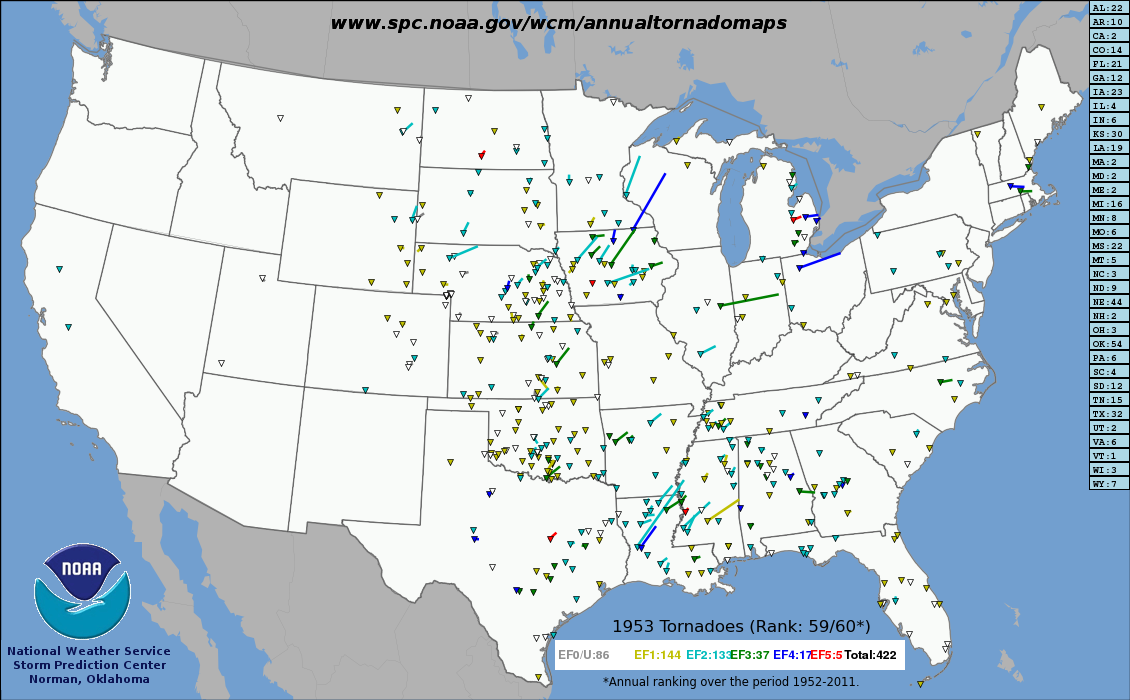 Track of every U.S. tornado from 1953.